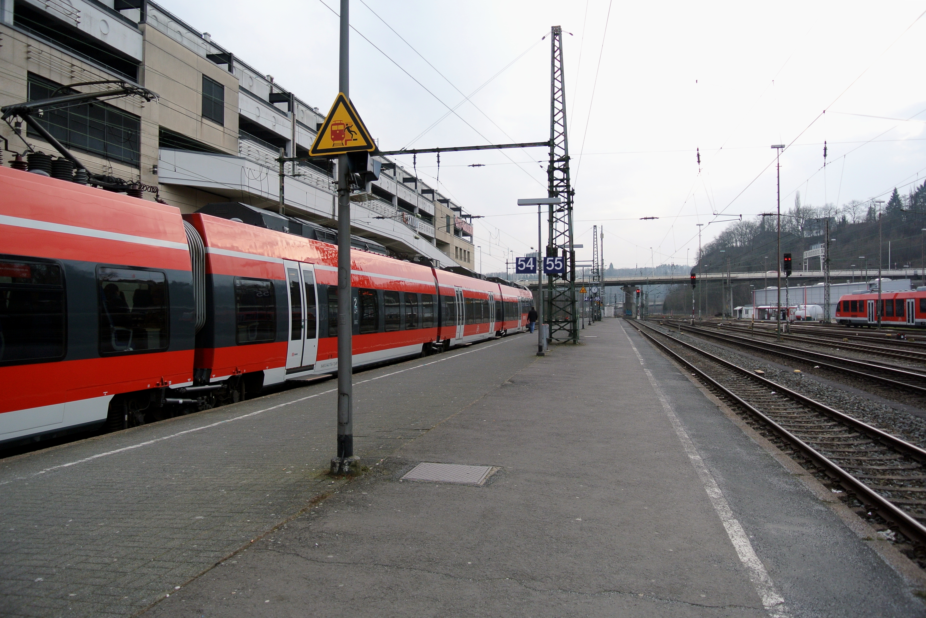 Siegen station and Rhein-Sieg-Express, view towards SW.